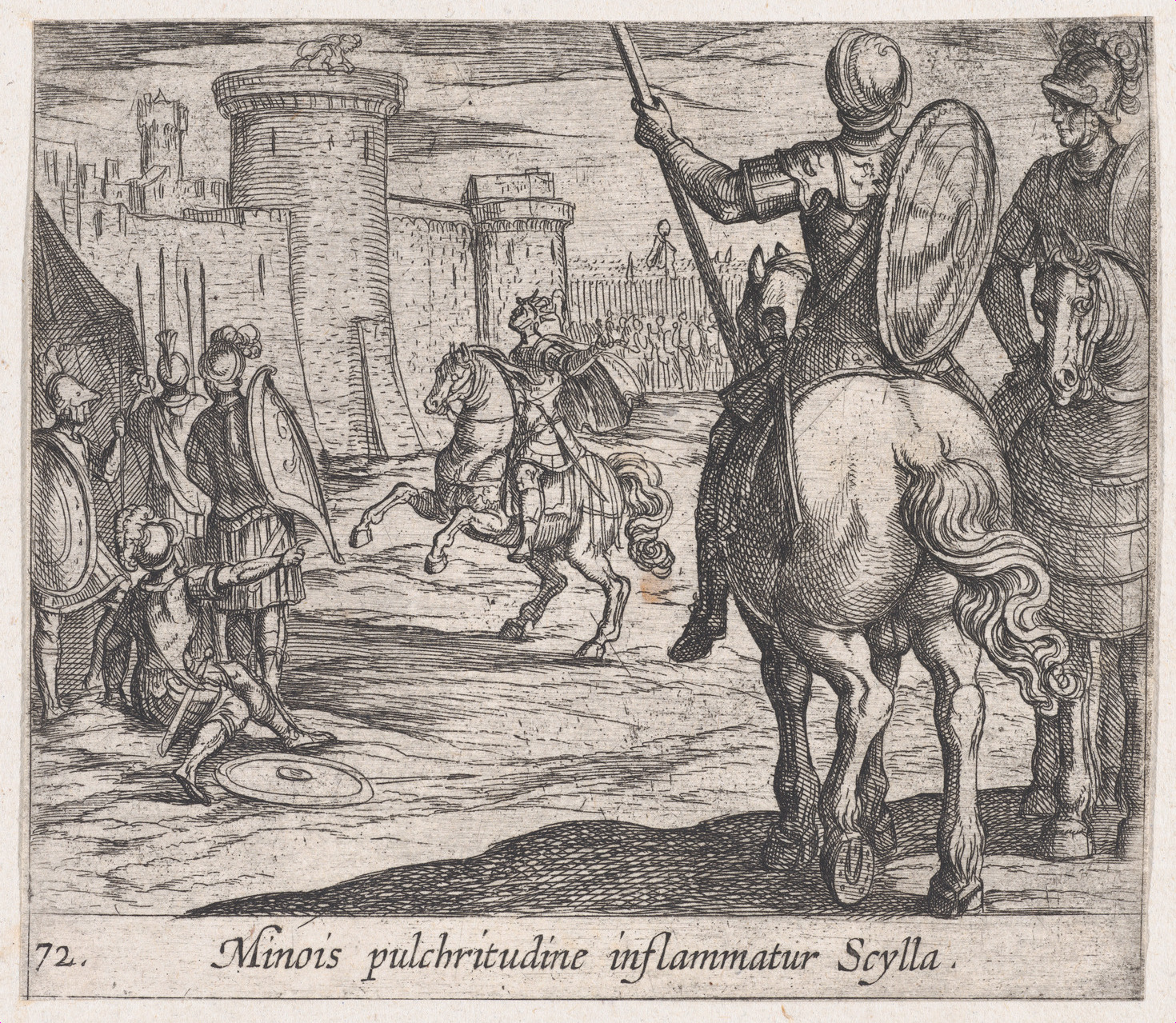 Print; Prints